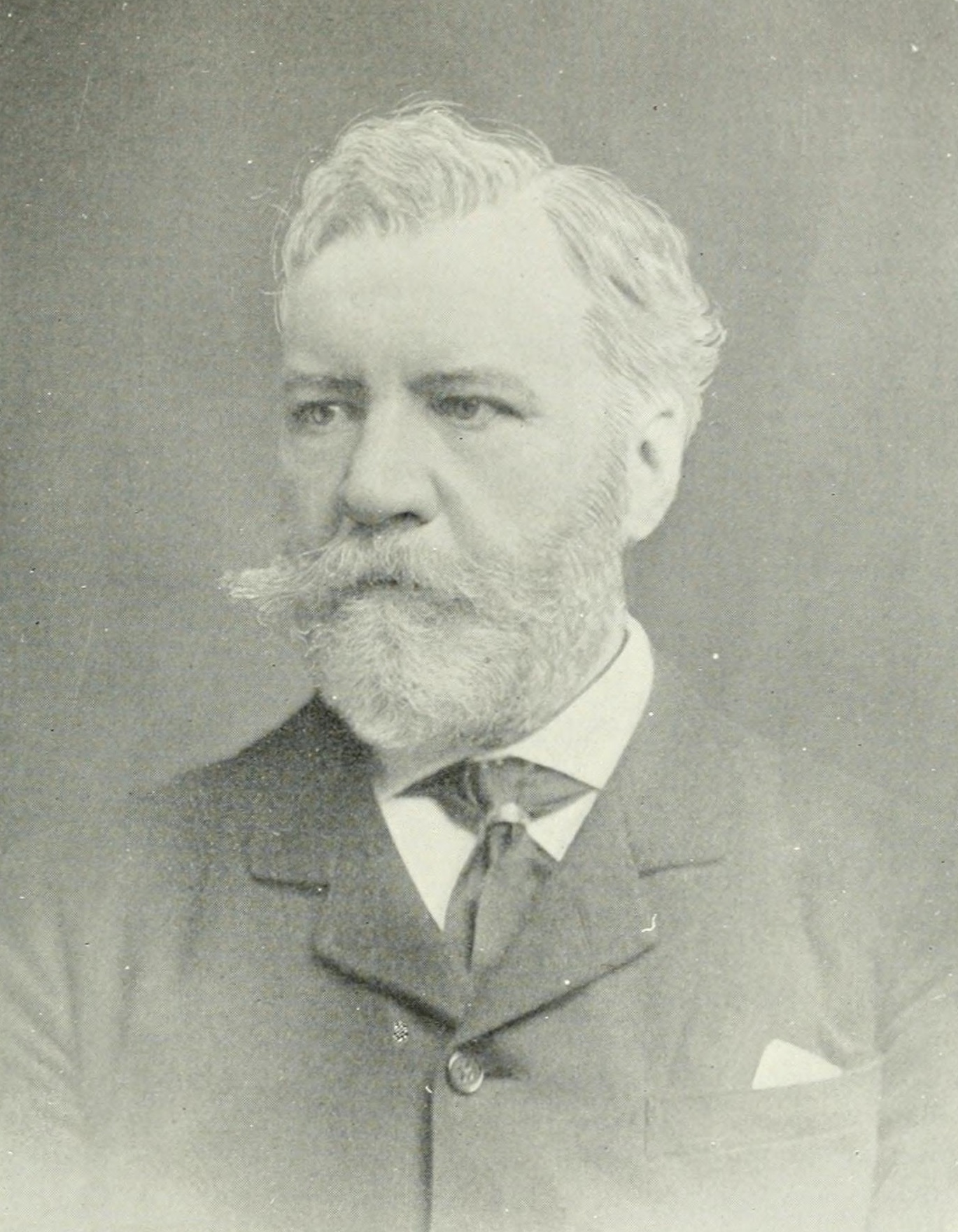 Portrait of Richard Whiteing